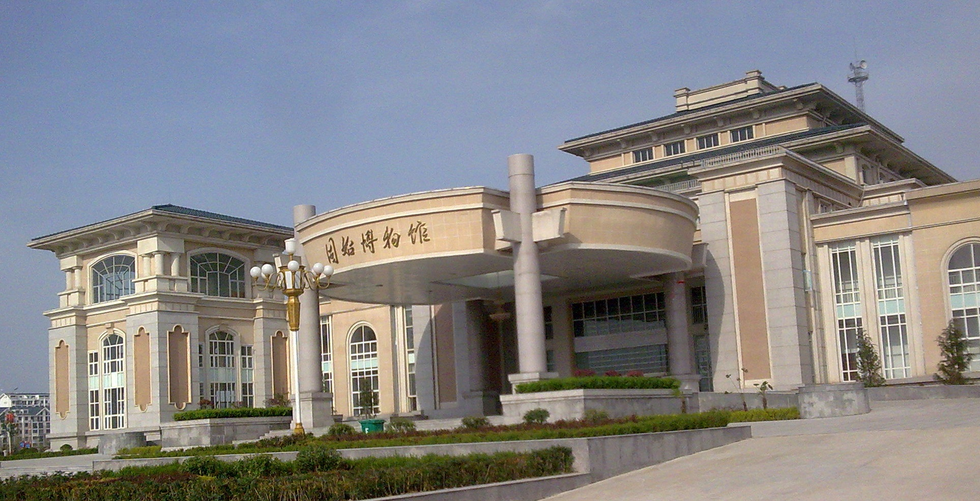 Gushi Museum